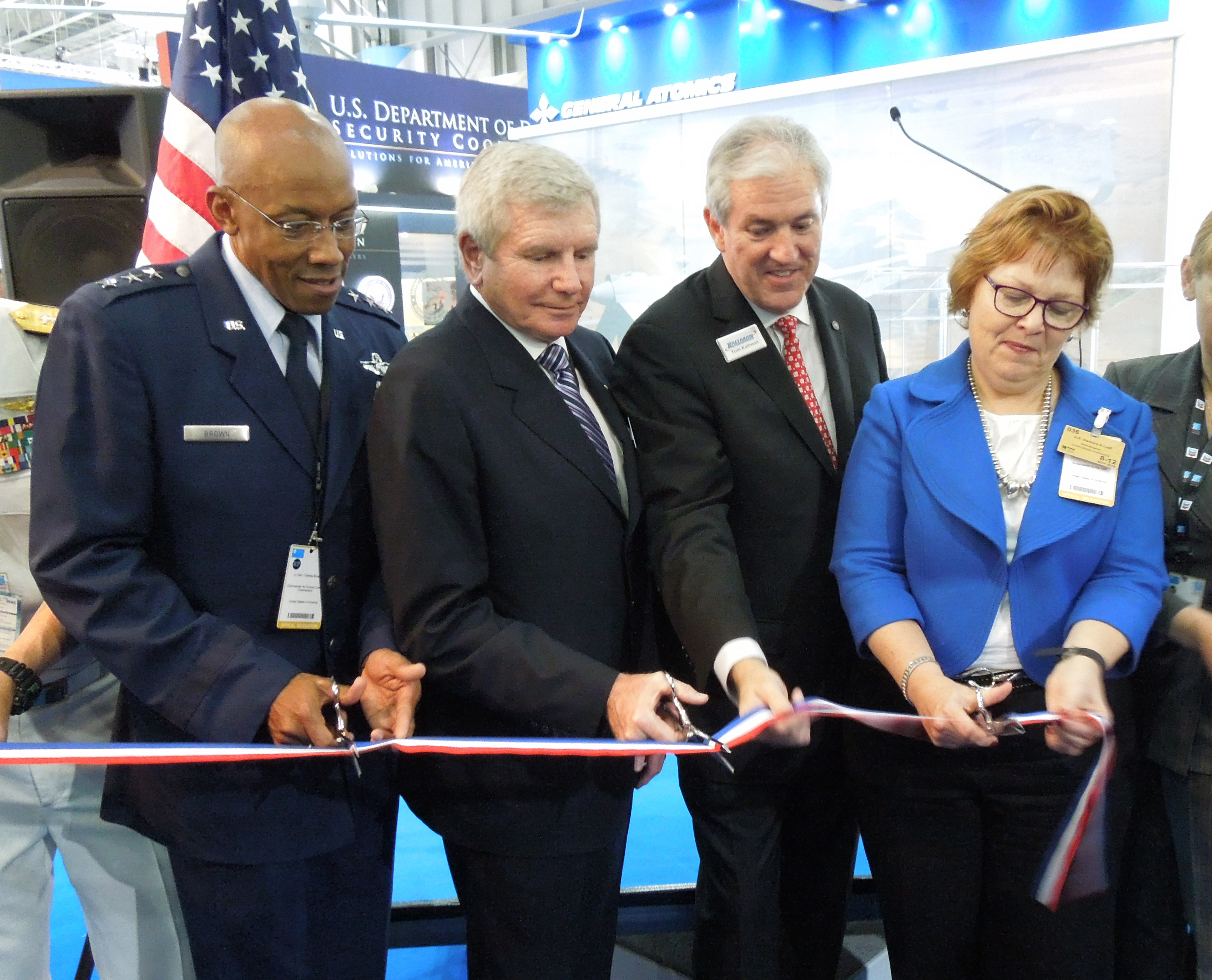 Lt. Gen. Charles Q. Brown Jr., commander U.S. Air Forces Central Command, Bob Durbin, Aerospace Industries Association chief operating officer, Tom Kallman, president of Kallan Worldwide, and Barbara A. Leaf, U.S. Ambassador to the United Arab Emirates join other distinguished guests in cutting a ribbon marking the opening of the U.S. pavilion at the 2015 Dubai Airshow, United Arab Emirates, Nov. 8, 2015. The airshow is considered to be the premier aviation and air industry event in the Middle East region. (U.S. Air Force photo by Tech. Sgt. Joshua Strang)